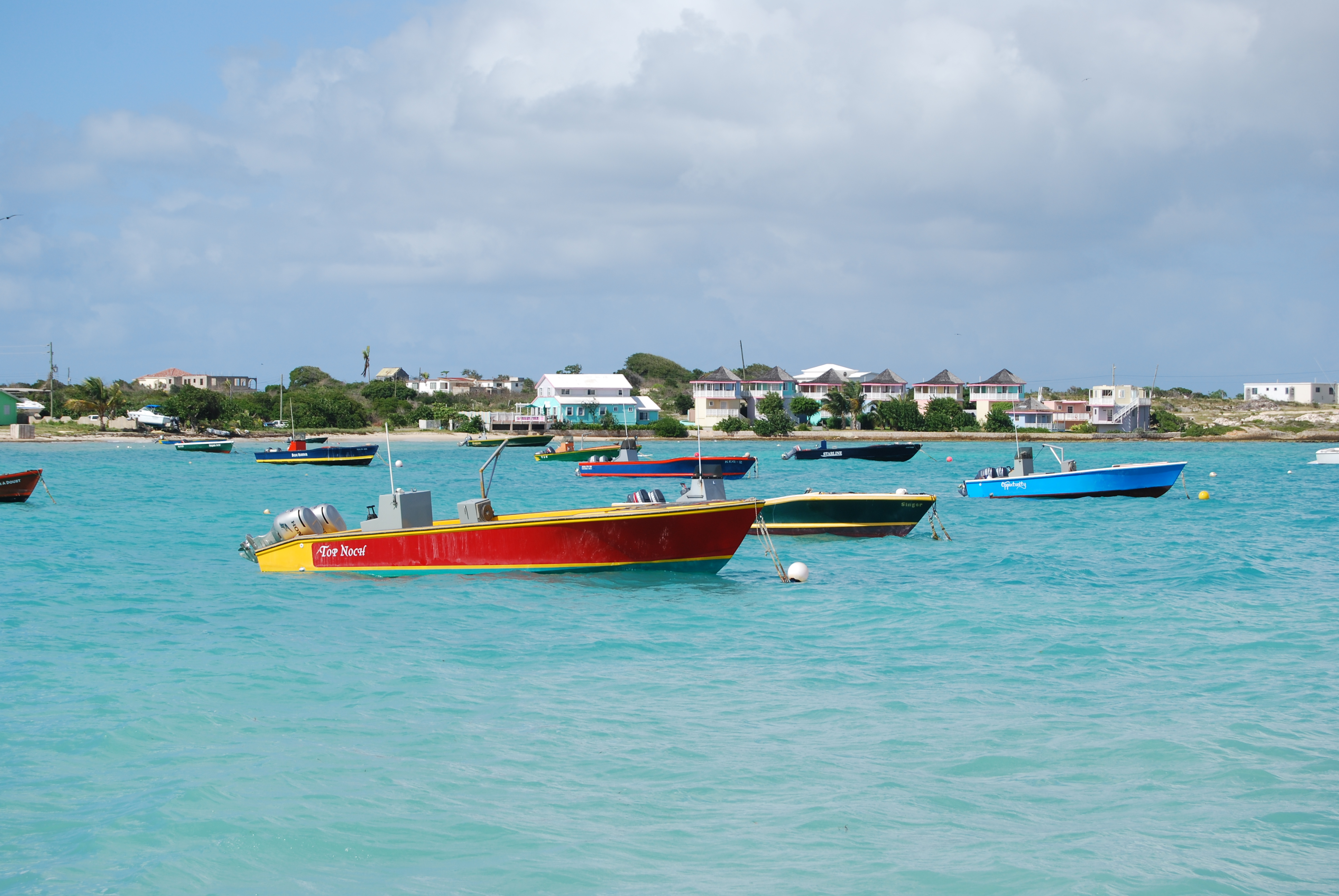 Island Harbour, Anguilla